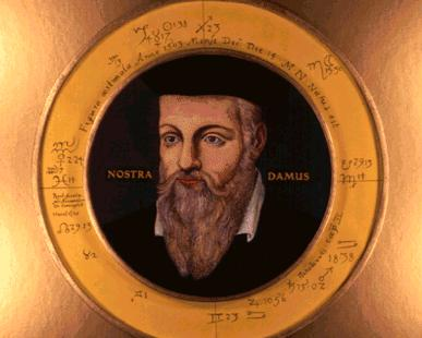 Портрет Нострадамуса кисти его сына Сезара